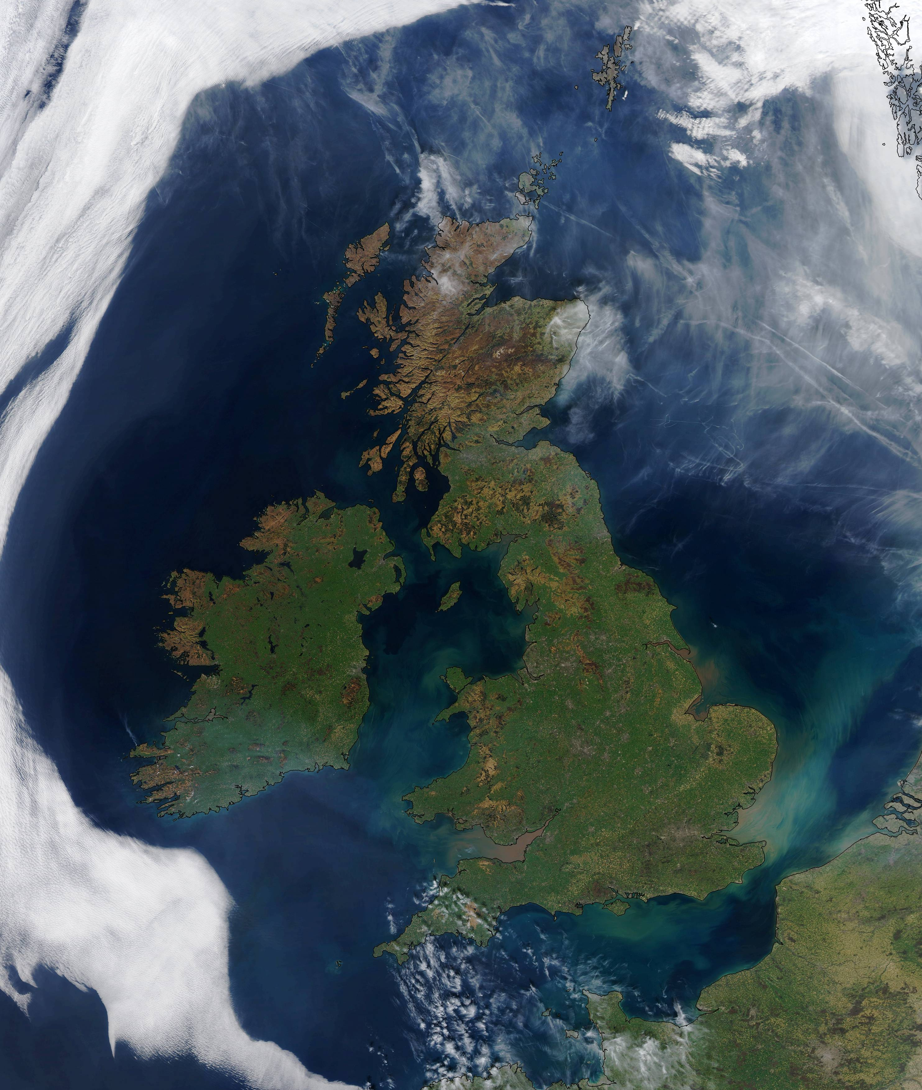 The United Kingdom on March 26, 2012 while mainly cloud-free. On this day, Scotland set its new all time March high temperature record of 22.9C.